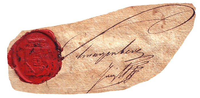 Jan Adolf II. Schwarzenberg duke of the Krumlov manor, sigil with signature y.1834; picture of an original